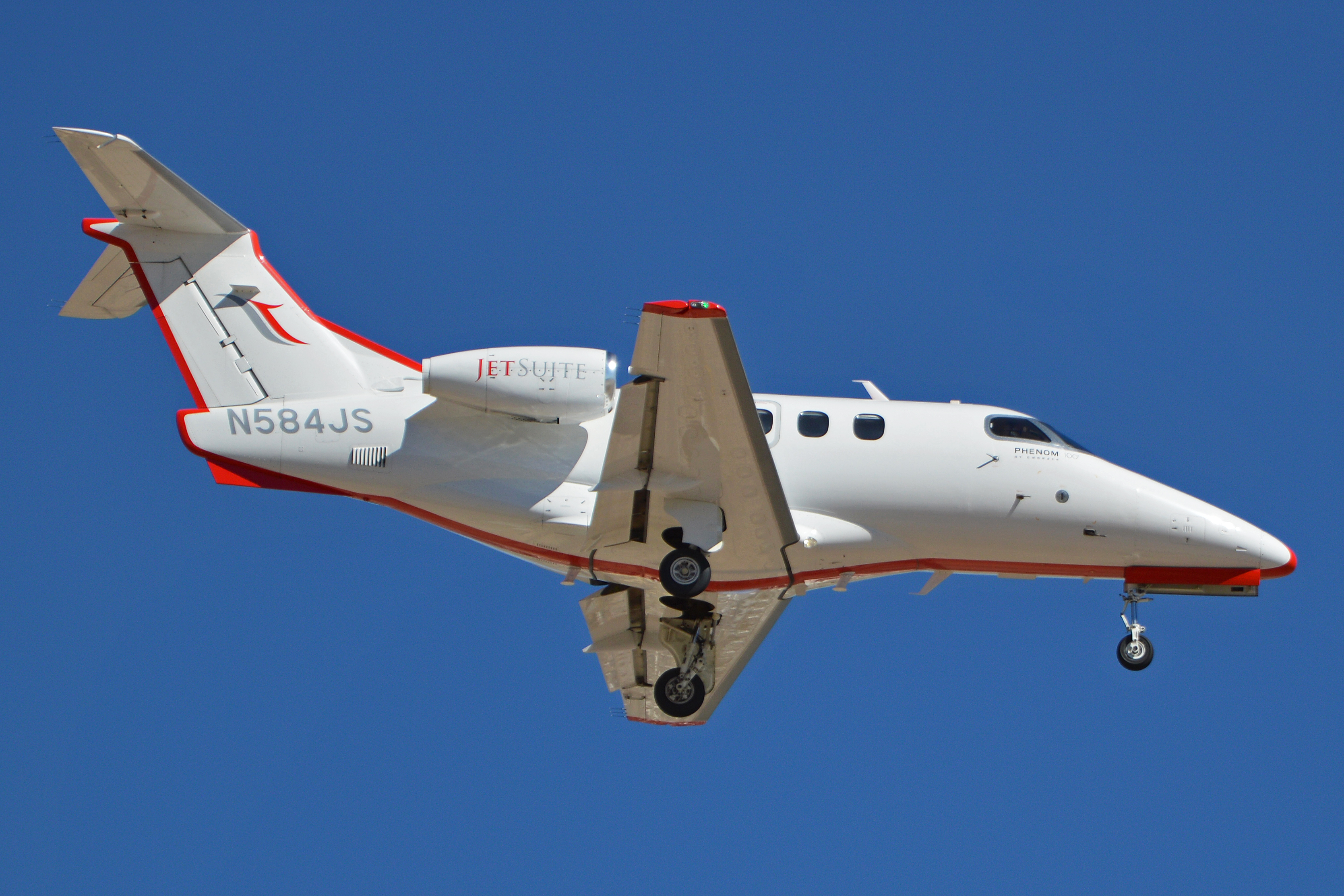 c/n 50000140. Built 2010. Operated by JetSuite. Seen on approach to Tucson International Airport, Tucson, Arizona. USA. 09-2-2014